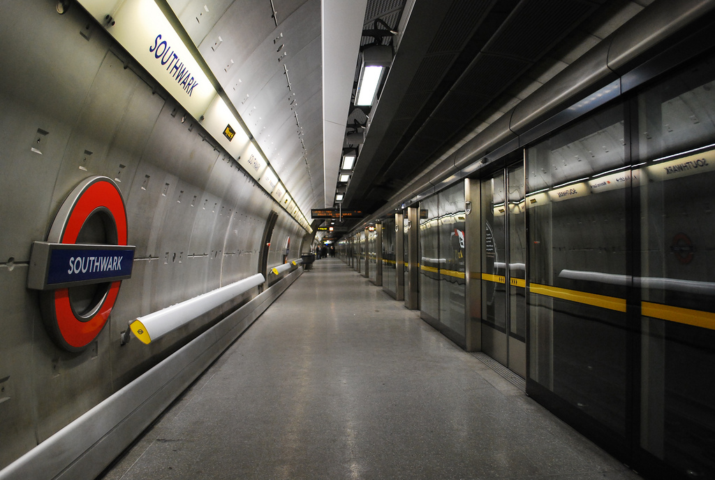 Southwark tube station, South London